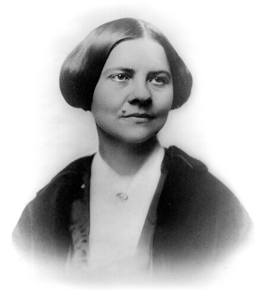 A scan of a framed photographic portrait of Lucy Stone, between 1840 and 1860